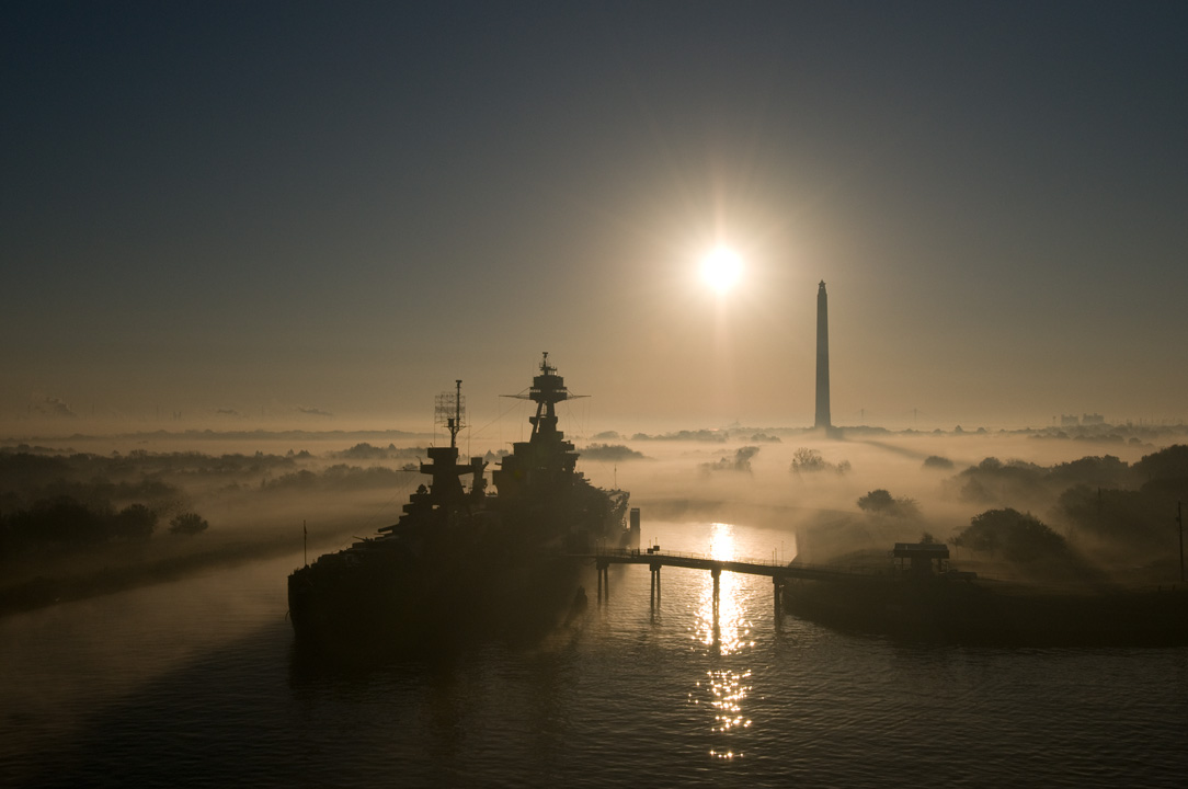 The museum ship USS Texas (BB-35), built in 1915, is in the foreground. She is the last of the "dreadnought" type of battleships built during that period. Across the field is the San Jacinto Monument, marking the site of the battle where the residents of Texas won their independence from the government of Mexico in 1836. In the far background, to the right of the monument, one can see the towers of the Fred Hartman Bridge, which is over 5 miles away. Taken with a Nikon D300 and a 17-35 mm f/2.8 lens from a ship passing in the Houston Ship Channel.